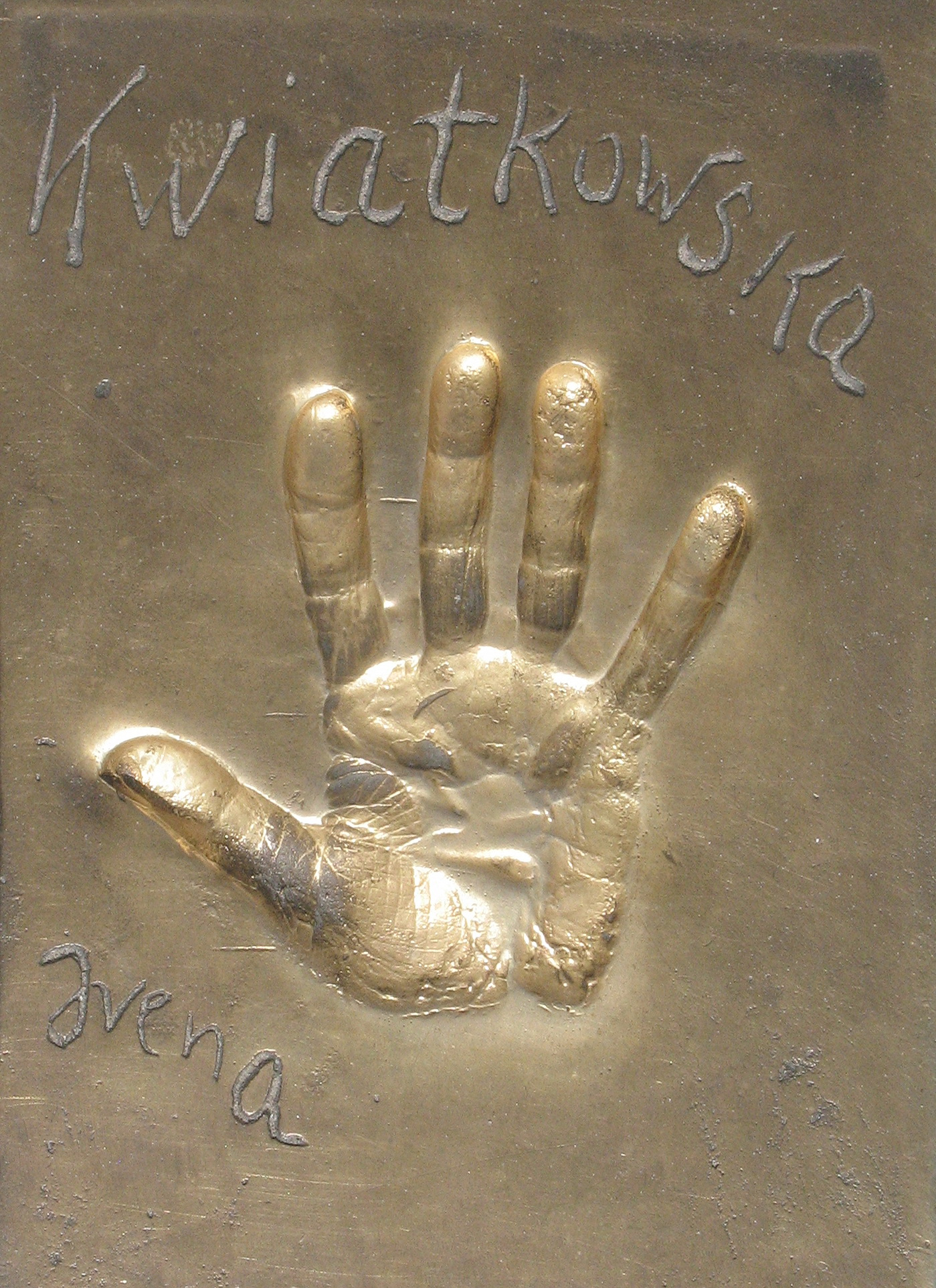 Irena Kwiatkowska - handprint and signature in Międzyzdroje.